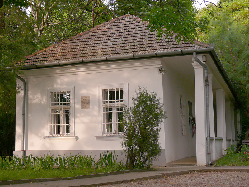 The Géza Gárdonyi Memorial Museum in Eger